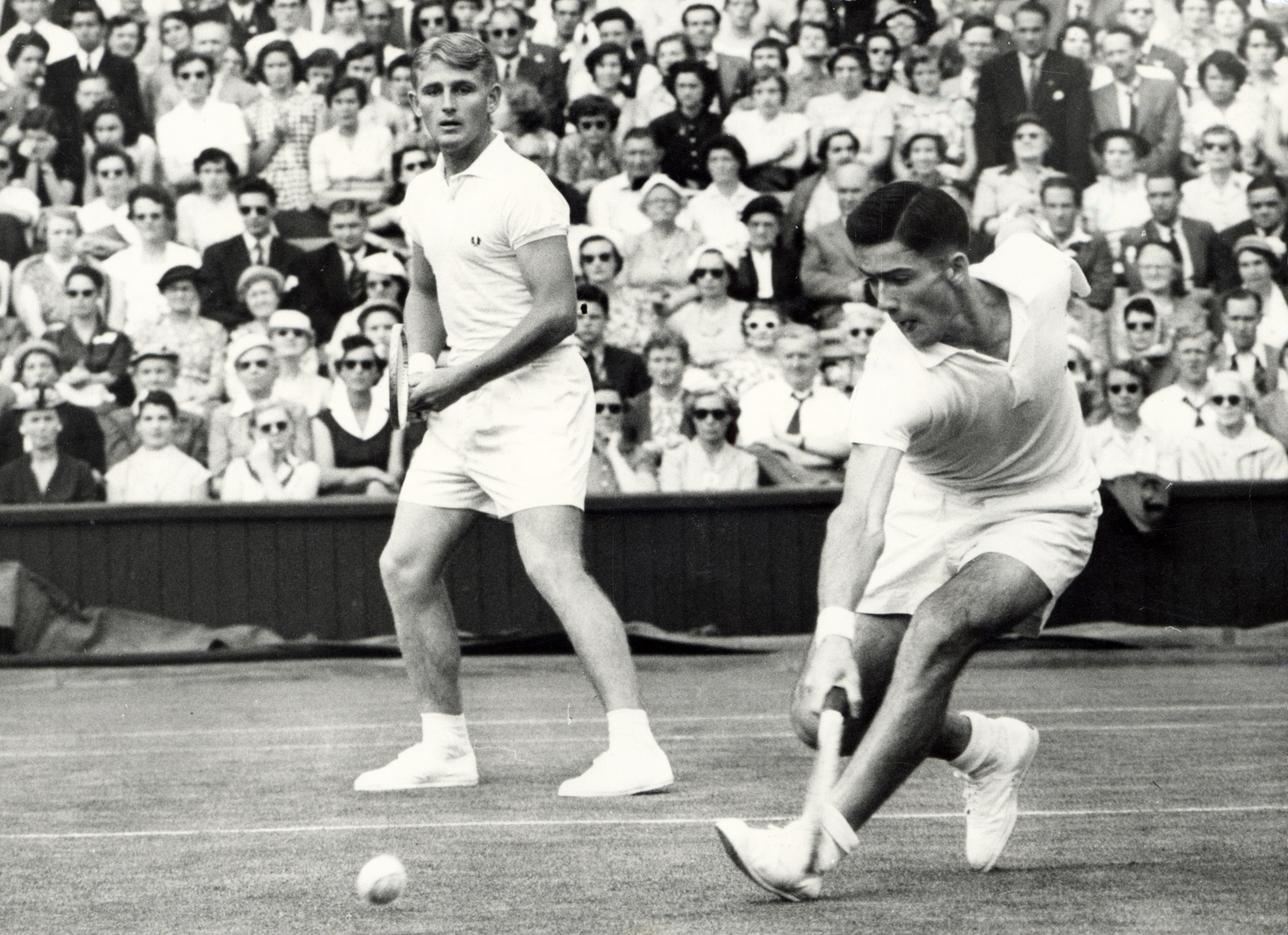 Australian tennis players Lew Hoad (left) and Ken Rosewall (right) playing a doubles match at the Wimbledon Championships